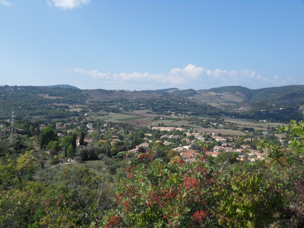 Provence village of Manosque in southeast France